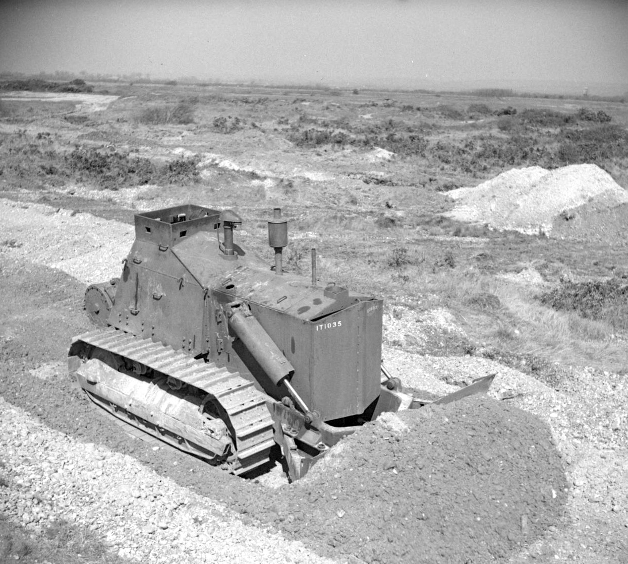 D-7 armoured bulldozer, 3rd Division, 1 May 1944